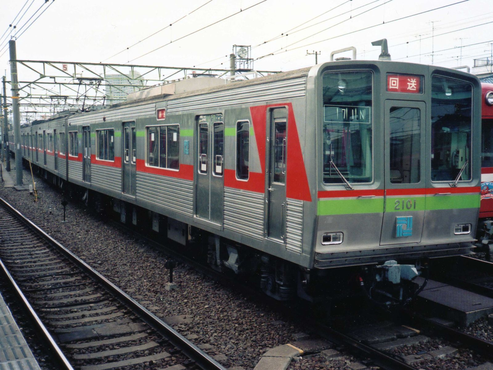 Chiba New Town Railway 2000 series EMU set 2001 at Kanagawa-Shinmachi Station on the Keikyu Main Line in Kanagawa Prefecture, Japan